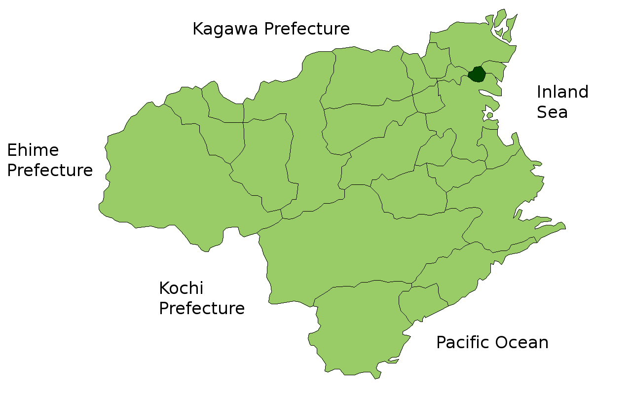 Map of Tokushima Prefecture highlighting Kitajima town. Borders of map as of October, 2006. (blank map used from [1]) See also Image:TokushimaMapCurrent.png